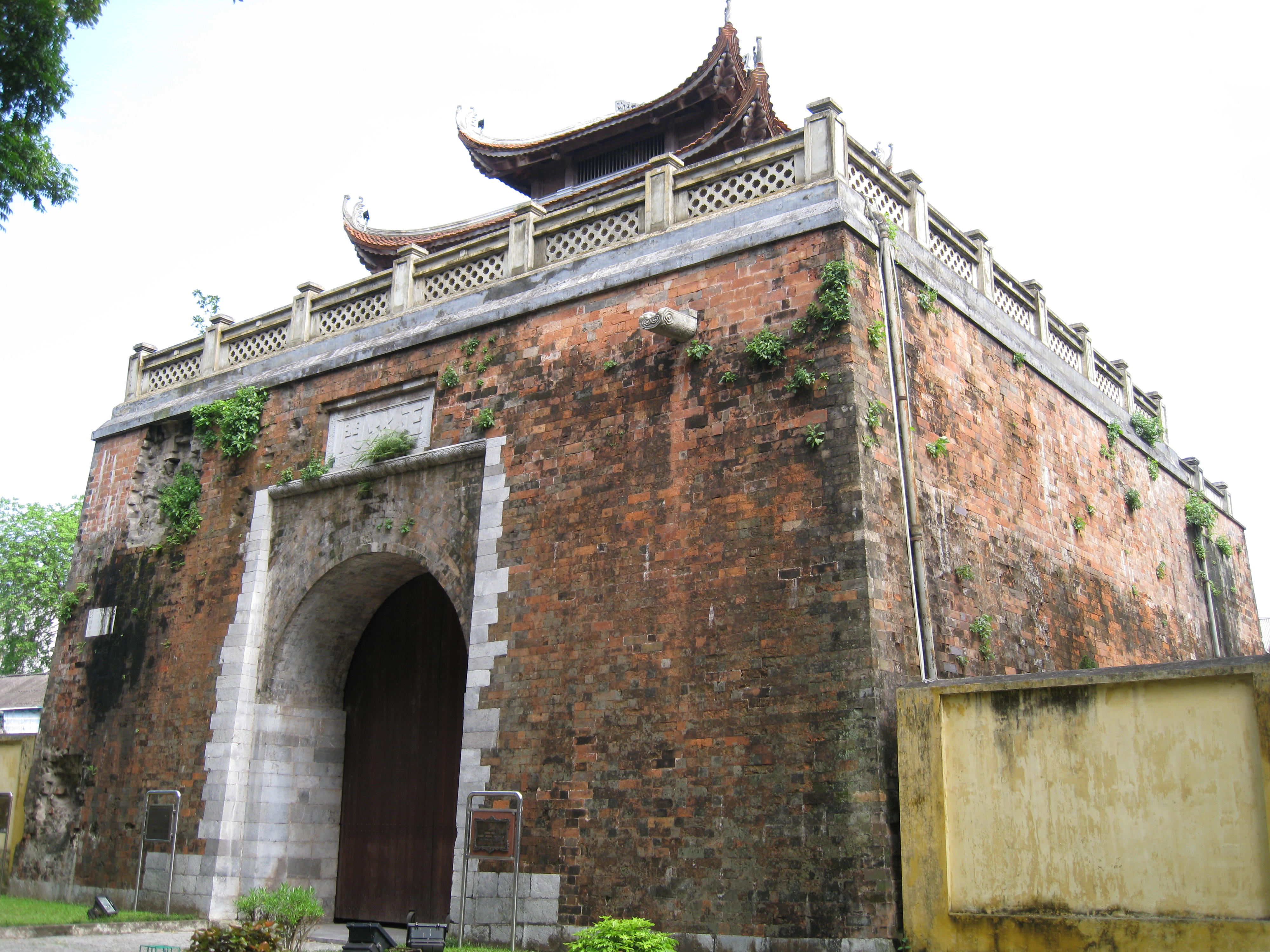 North Gate of Thang Long Citadel.